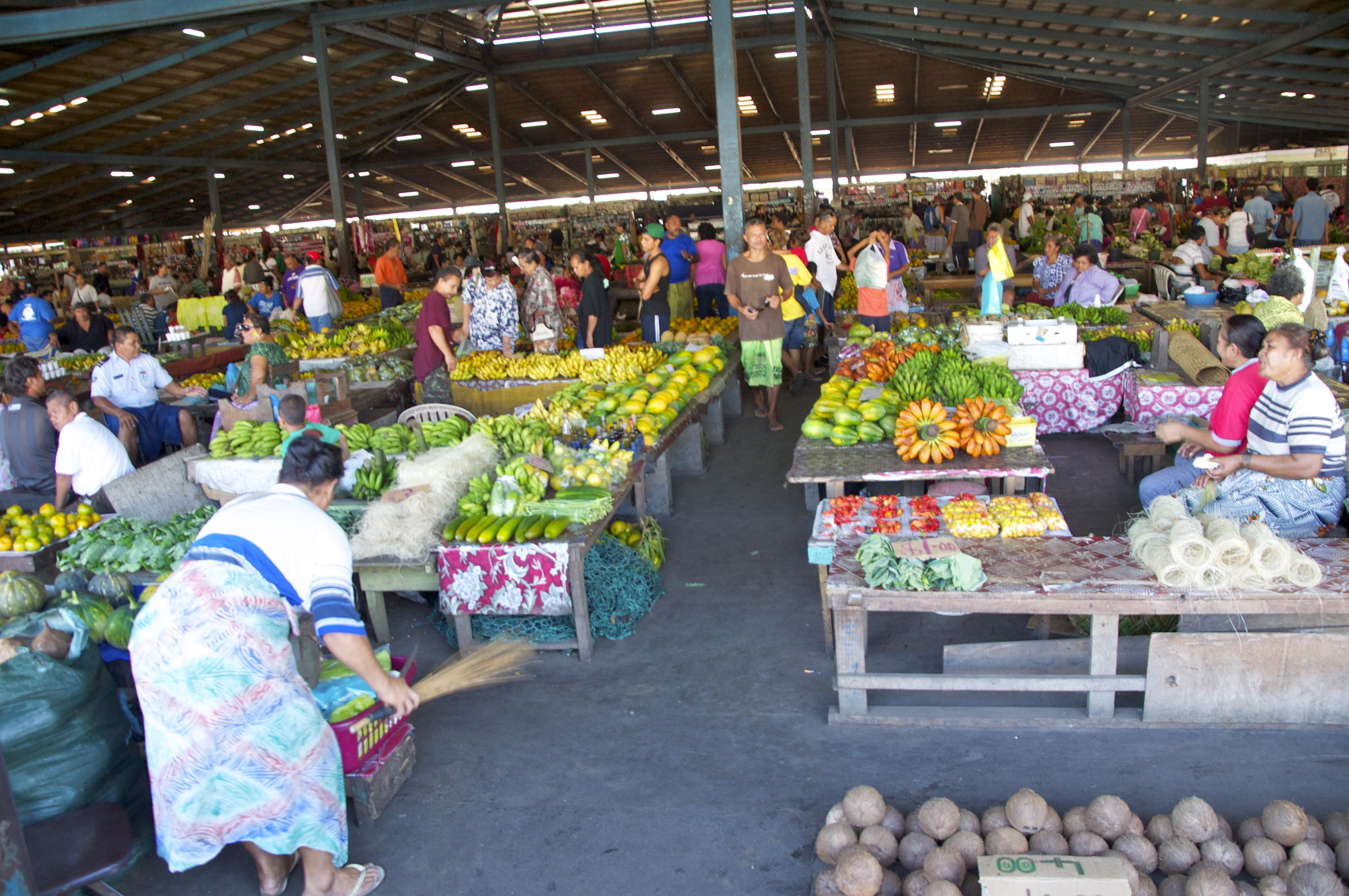 Apia Market in Samoa. Photo:UN Women Naziah Ali